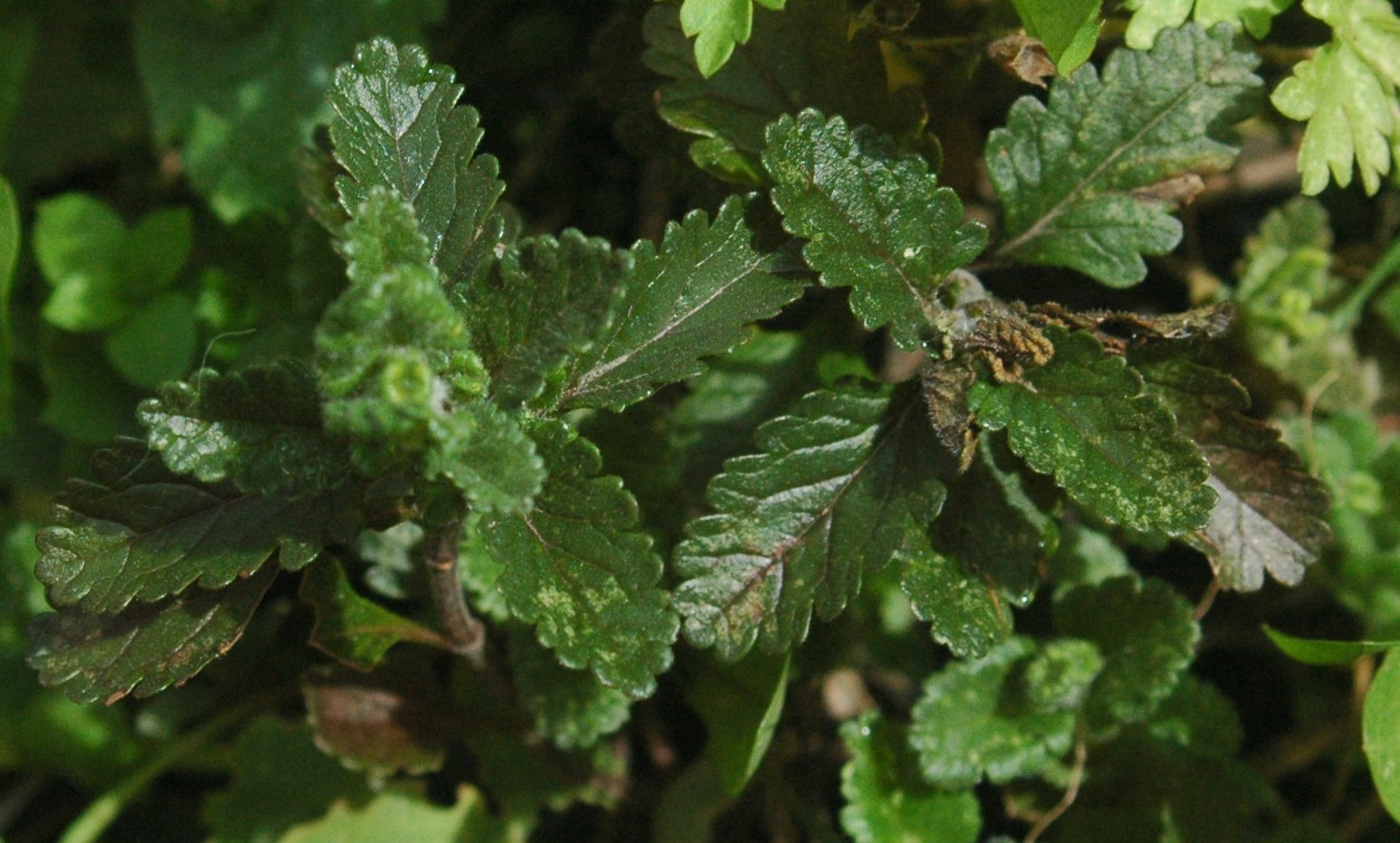 Teucrium chamaedris, location: Letničie, western Slovakia